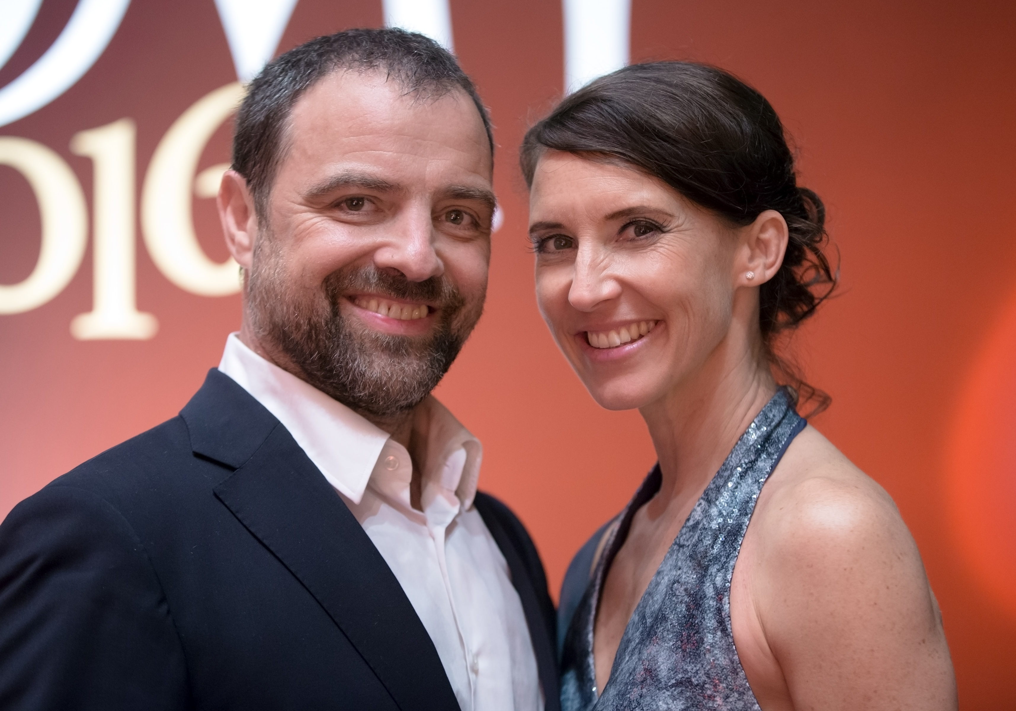 Maria Köstlinger and Juergen Maurer on the red carpet of the Romy TV awards 2016 at Hofburg Palace in Vienna, Austria.